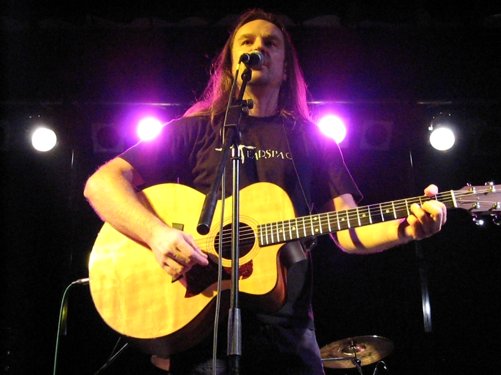 Damian Wilson's acoustic spot at the CRS Autumn Rokfest. Montgomery Hall, Wath-upon-Dearne. 2007-11-03.